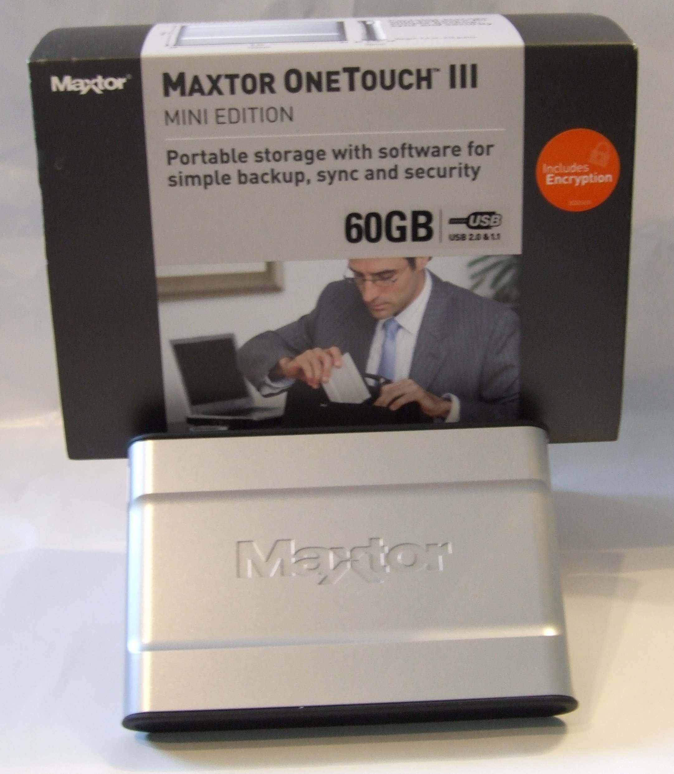 Maxtor One Touch III mini edition 60GB Hard drive with box